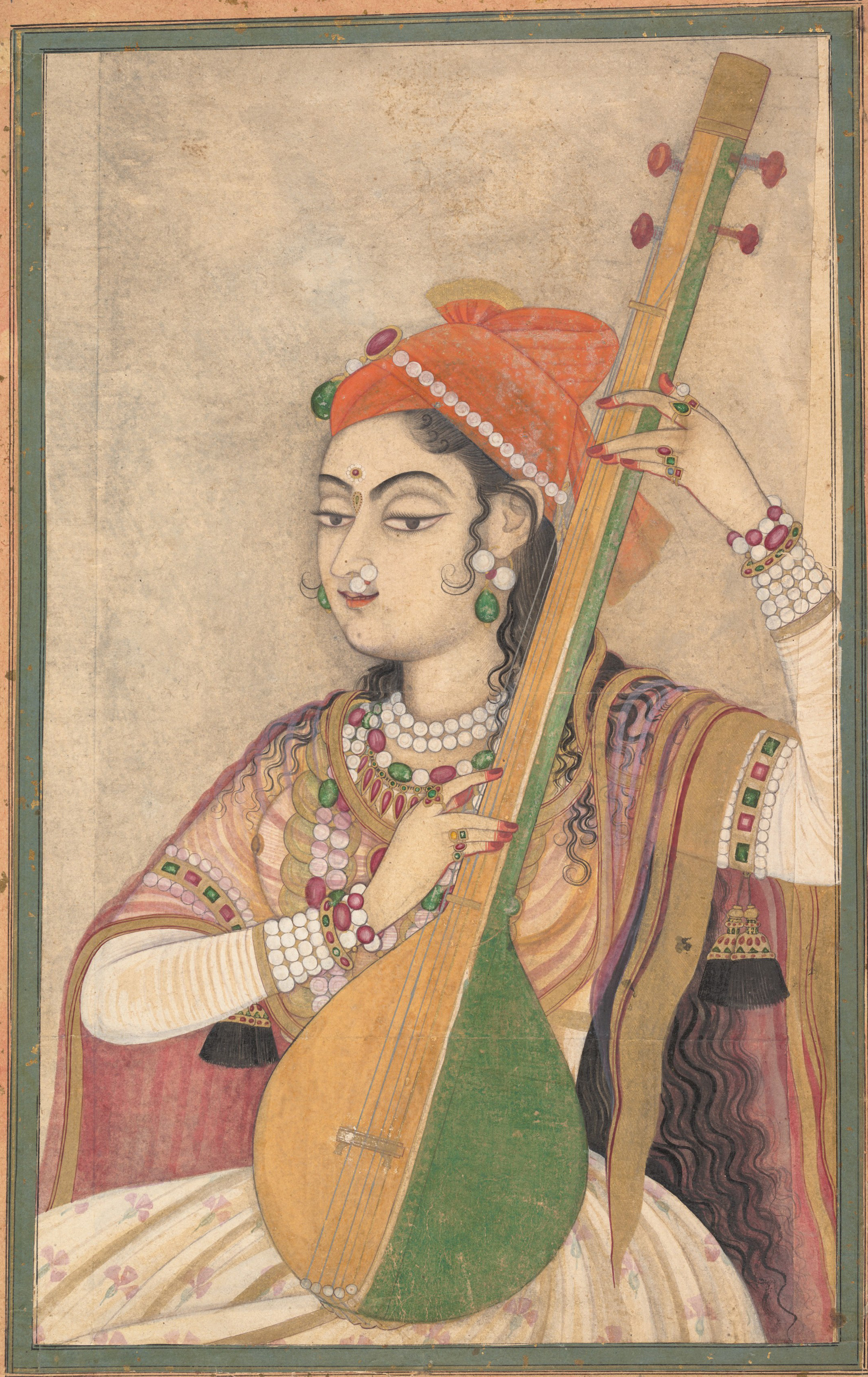 A Lady Playing the Tanpura, ca. 1735 India (Rajasthan, Kishangarh) Ink, opaque and transparent watercolor, and gold on paper 18 1/2 x 13 1/4 in. (47 x 33.7 cm) Fletcher Fund, 1996 (1996.100.1)